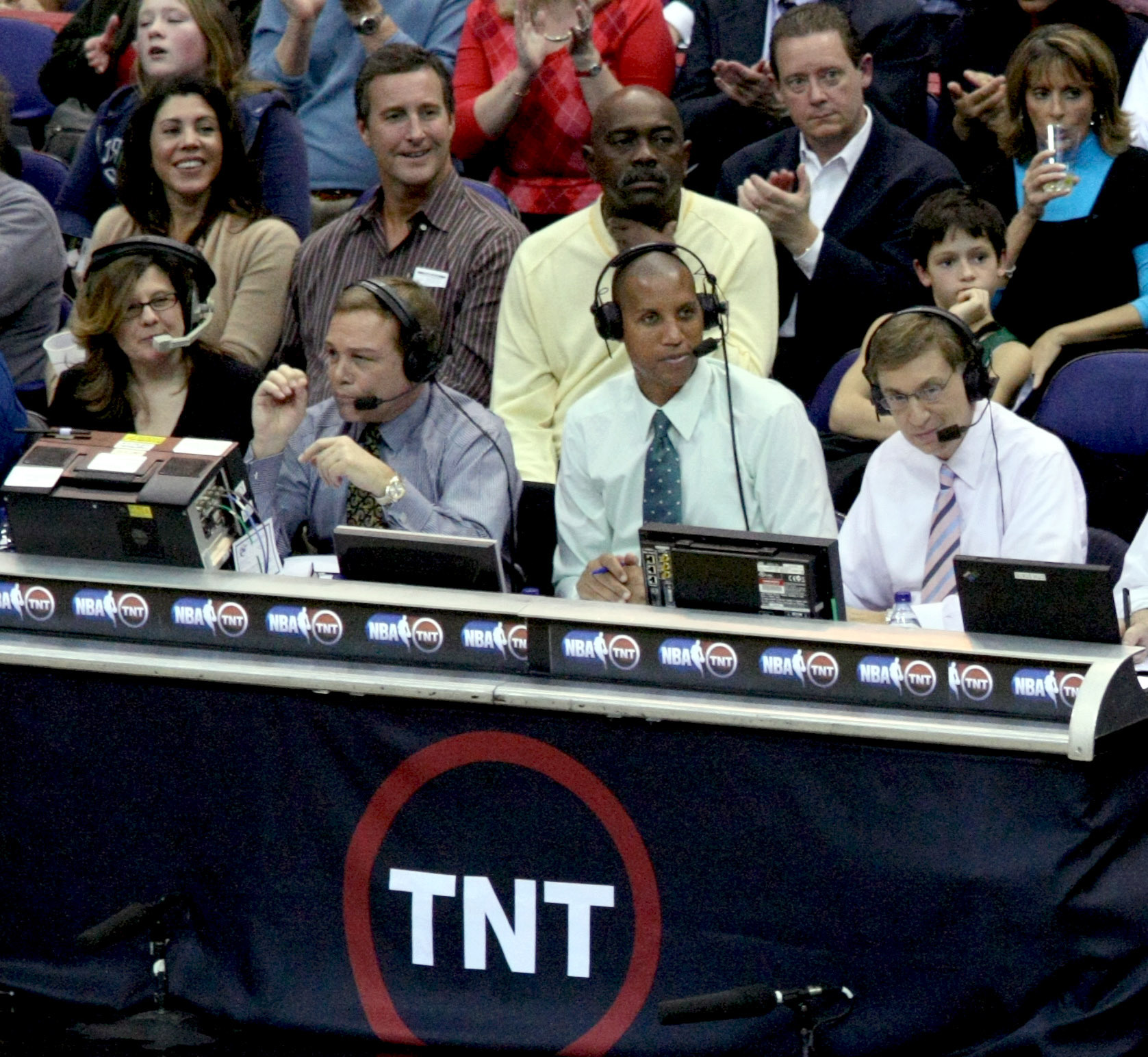 Reggie Miller serves as an NBA analyst for TNT